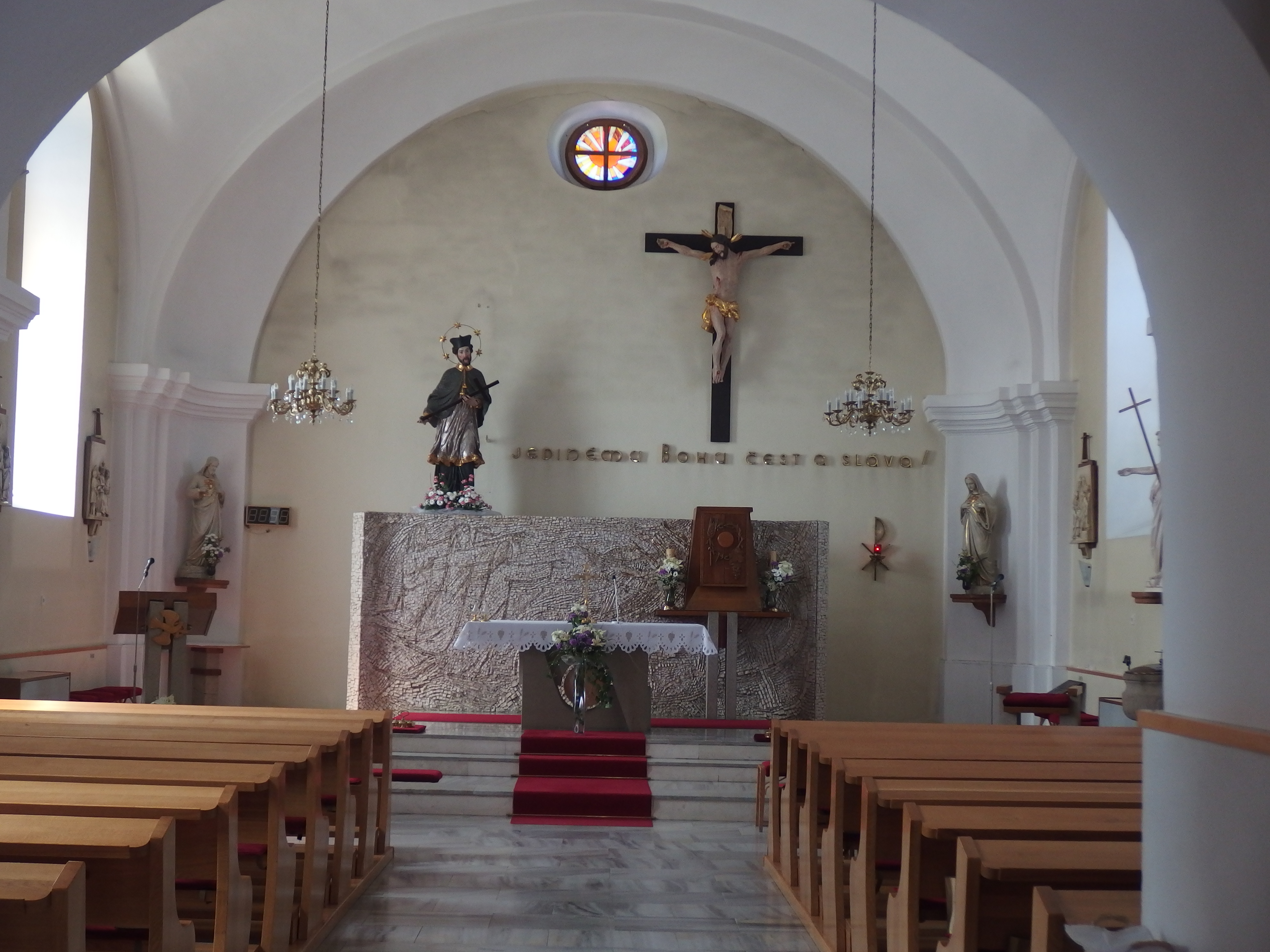 Všemina, Zlín District, Czech Republic.